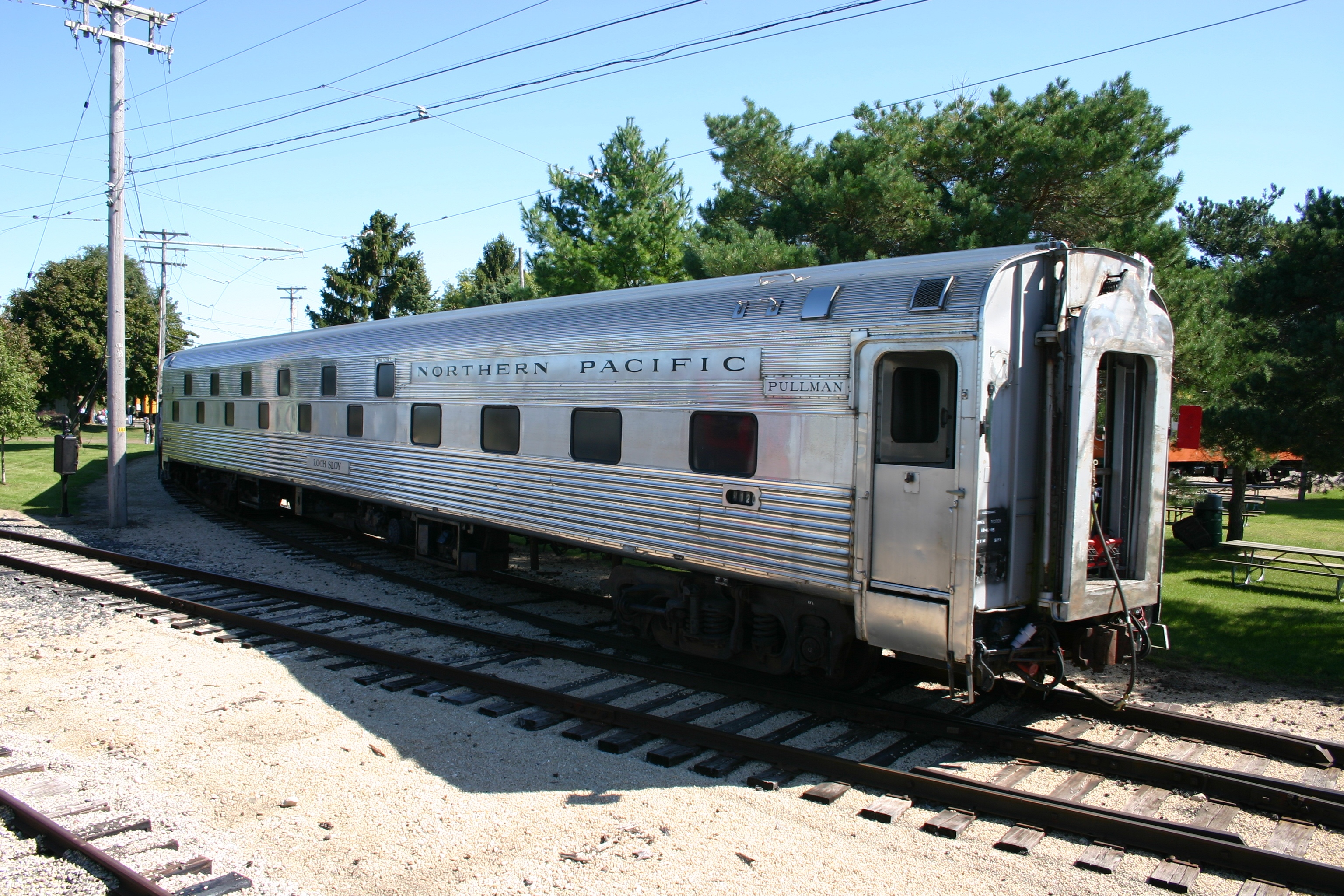 IRM 15 Sept 07 32. Ex-Northern Pacific #325 "Loch Sloy" was one of several Slumbercoaches used by the Northern Pacific Railway, and later Amtrak.